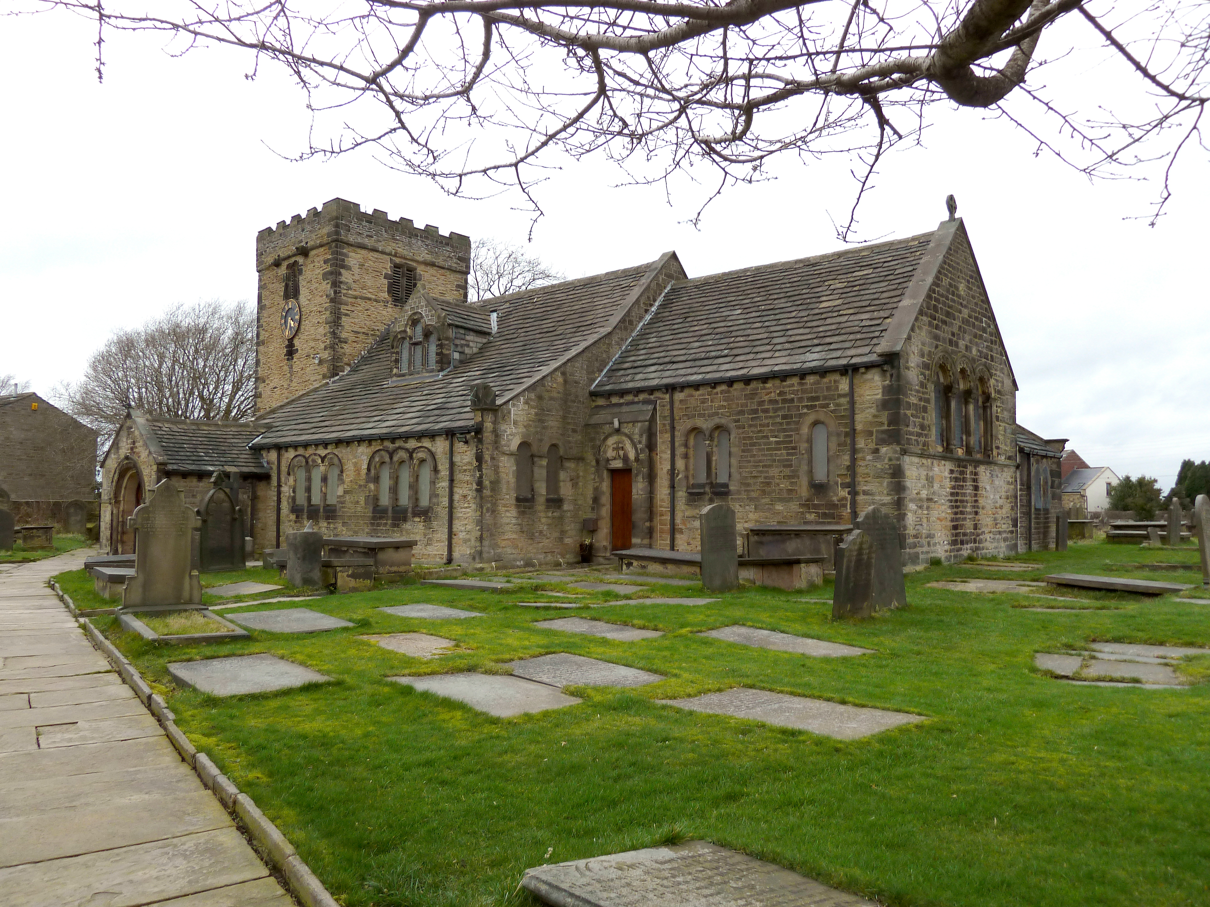 St Peter's Church, Hartshead, Kirklees, West Yorkshire, England. It has a 12th century chancel arch, south door and west tower. The rest is the result of heavy renovation in Neo Gothic and Arts and Crafts style by William Swinden Barber in 1881. There is further information about the church here.